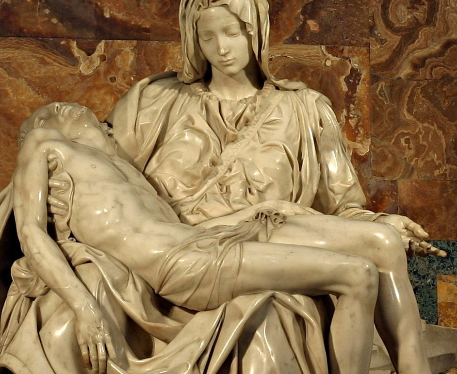 Michelangelo's Pietà in St. Peter's Basilica in the Vatican.Edit: Cut out and cropped.